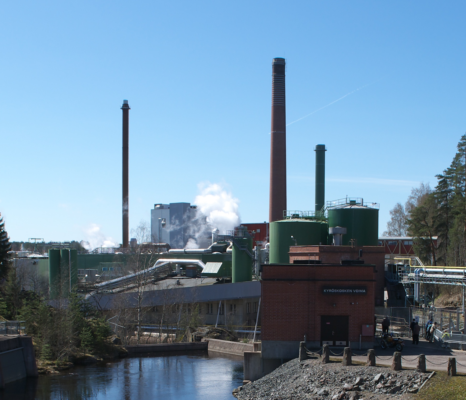 Metsä Board Kyro paper mill. Kyröskoski hydroelectric power station in foreground